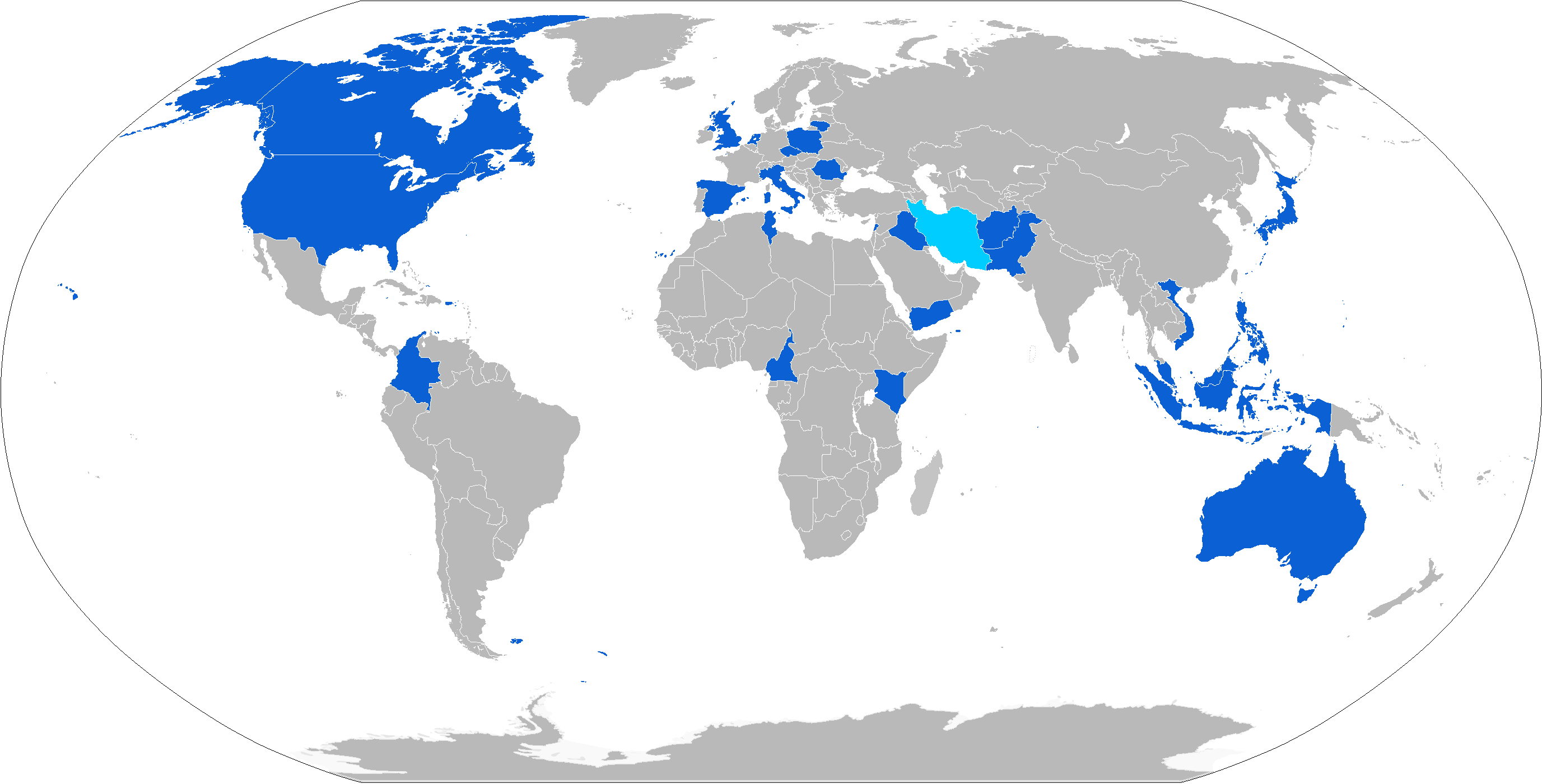 Map with ScanEagle operators in blue and operators of unlicensed reproductions in light blue